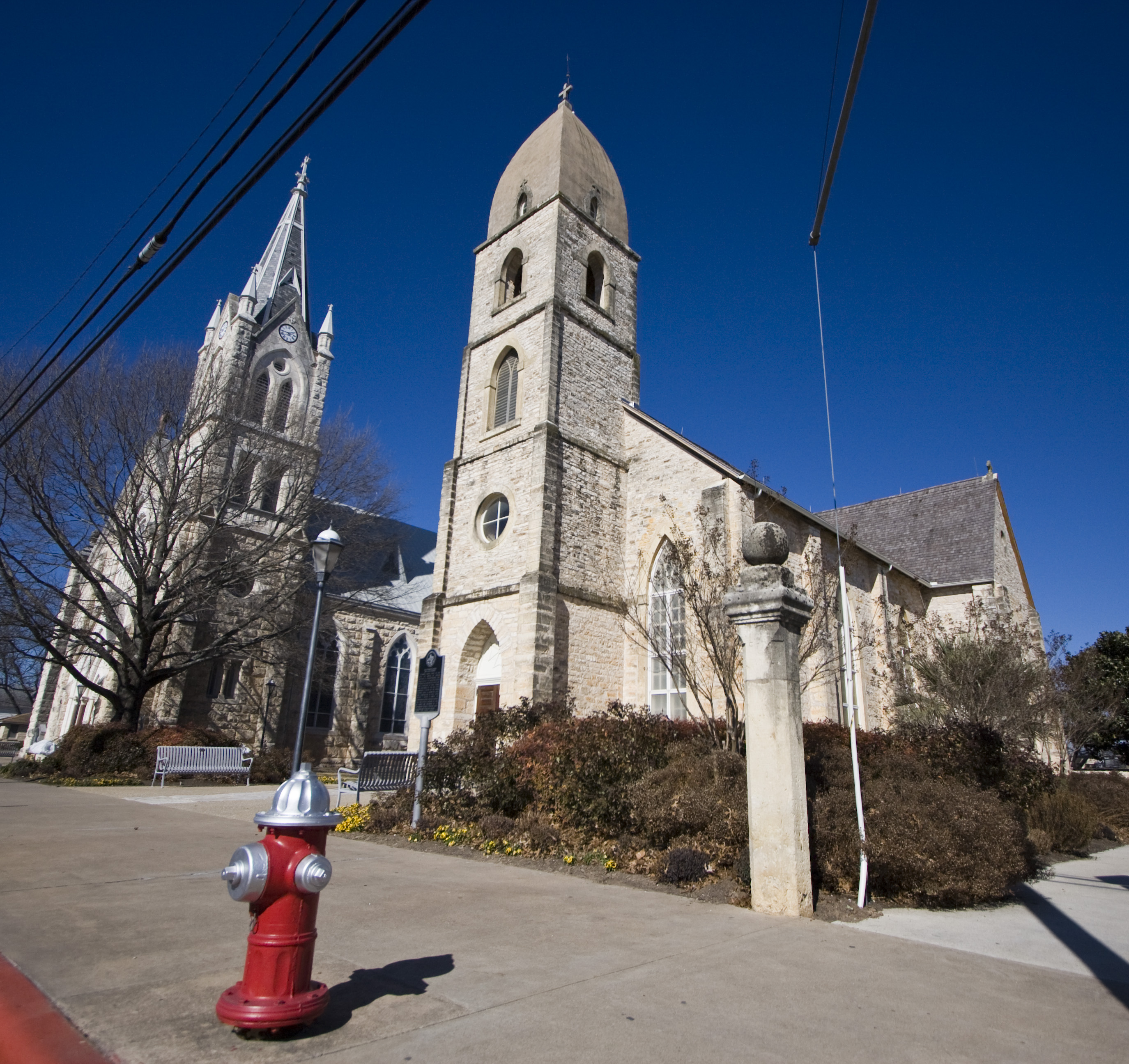 Old St. Mary's Catholic Church (Fredericksburg, Texas)